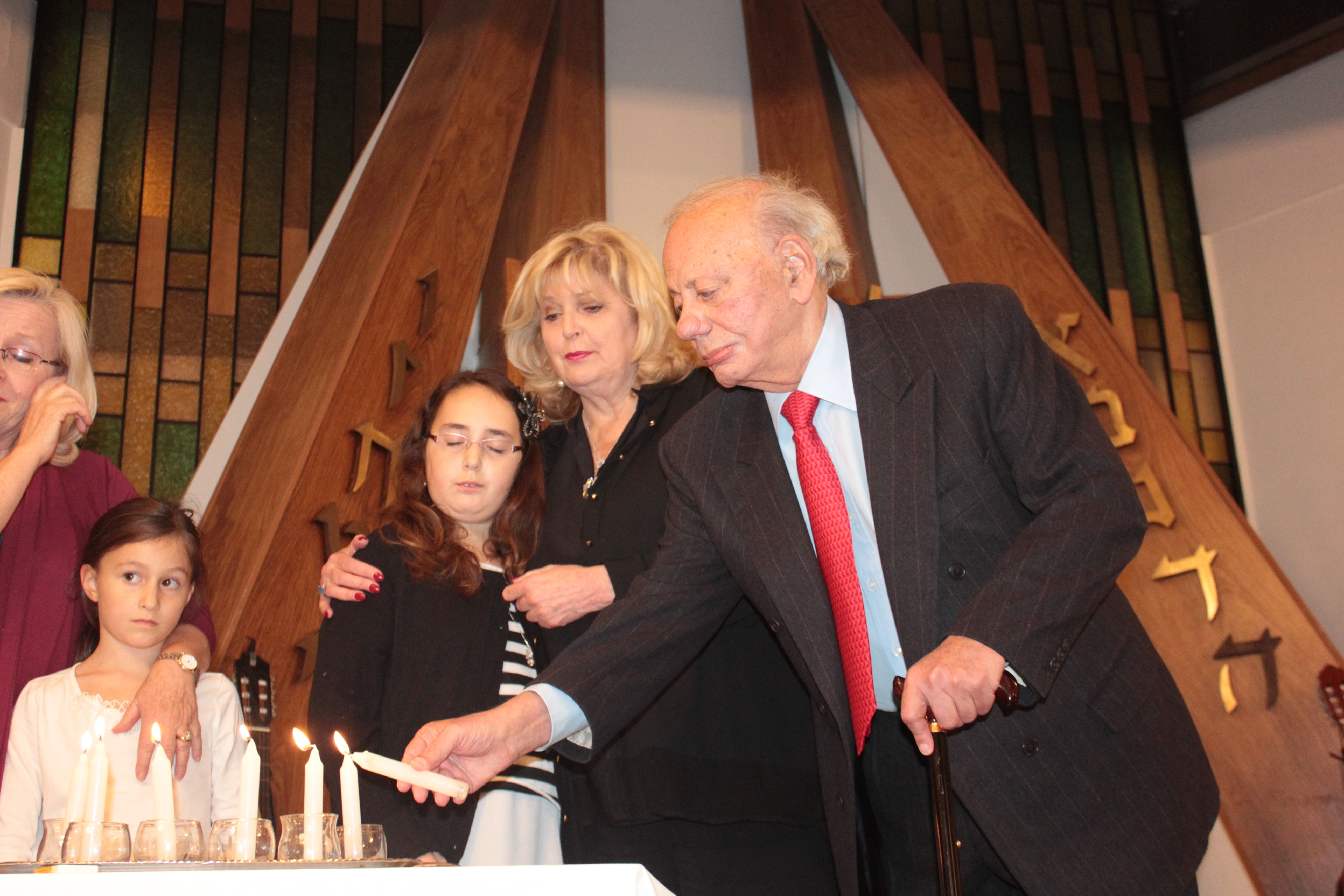 Sigmund Rolat at Congregation Habonim 2015 (candle lighting)